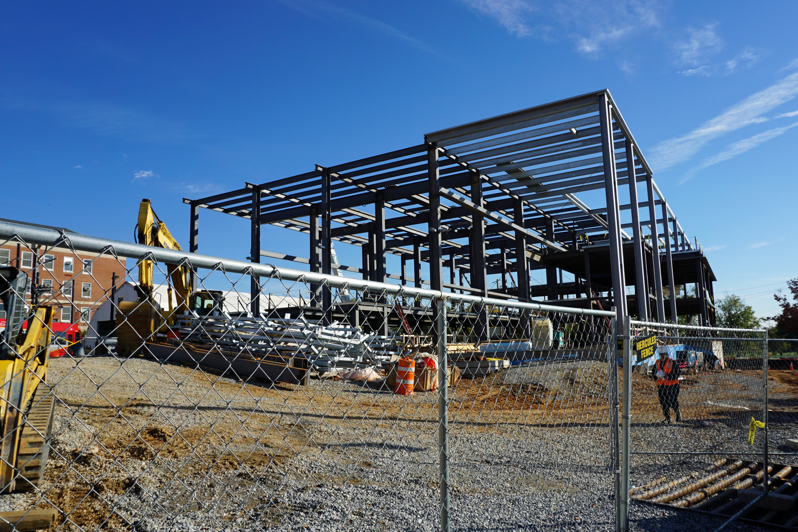 DC Streetcar construction site of the permanent Car Barn Training Center (CBTC II), Washington, D.C.